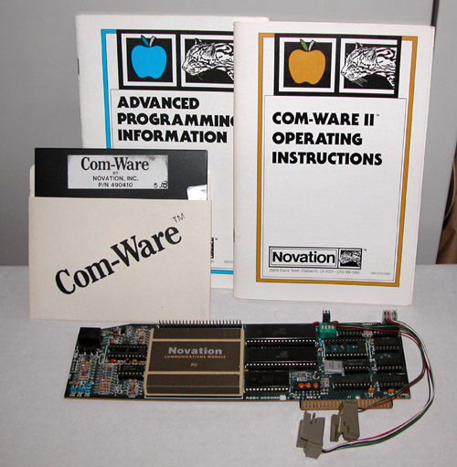 This is a photo of the Novation Apple-CAT II modem for the Apple II. Photo includes ComWare II and Advanced Programming manuals.